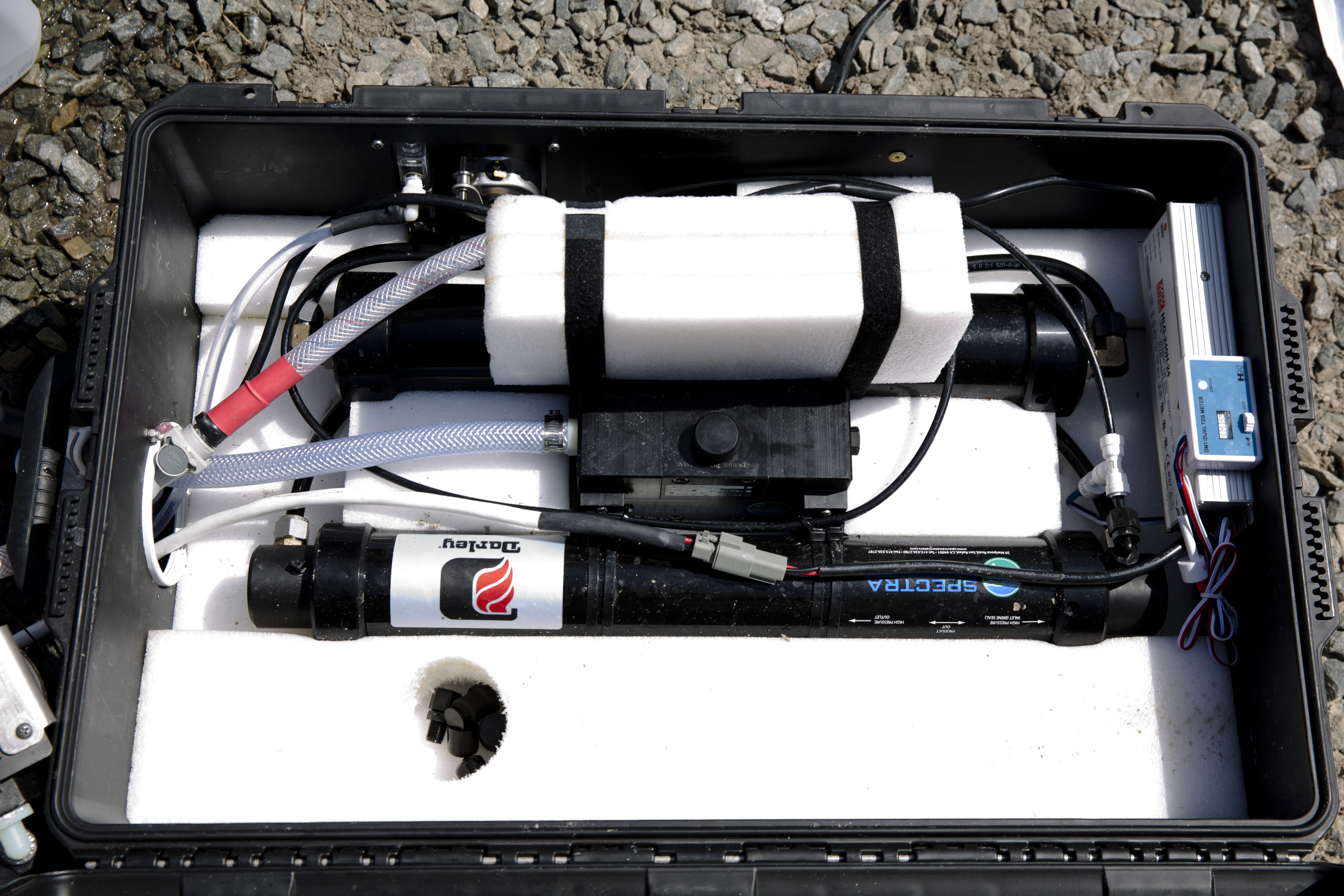 A small unit water purification system prototype filters water at Court House Bay’s Camp Sweat training area during a test run by Marines with 2nd Marine Logistics Group aboard Camp Lejeune, N.C., May 9, 2014. The prototype is an experiment aimed at lightening the Marine Air-Ground Task Force at the platoon level, where industrial water purification systems are an impediment to unit mobility and independence. The system weighs approximately 75 pounds and allows a platoon-size element of Marines to purify 7-10 gallons of water per hour from local water sources. Additionally, the systems are designed with user-friendly piping and filters that can be assembled in minutes and limit the need for specially trained personnel. A Marine in a field environment such as the desert requires approximately two gallons of water per day, and the new system could greatly reduce the need to regularly resupply small units.